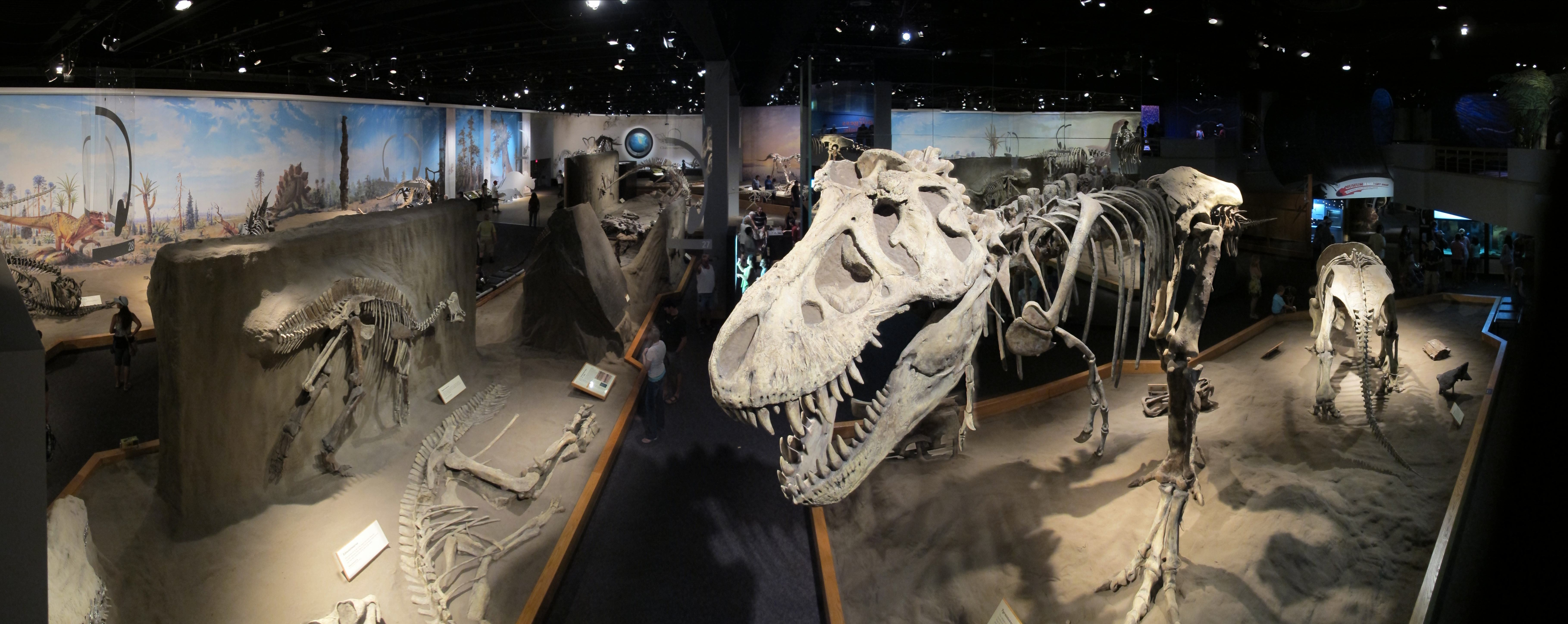 This is a panorama of the largest area in the Royal Tyrrell Museum of Paleontology.